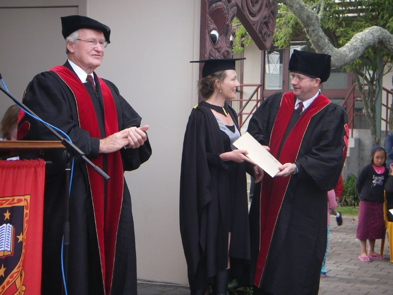 The Right Honourable Jim Bolger presides over a student's graduation at the University of Waikato marae, 2008.